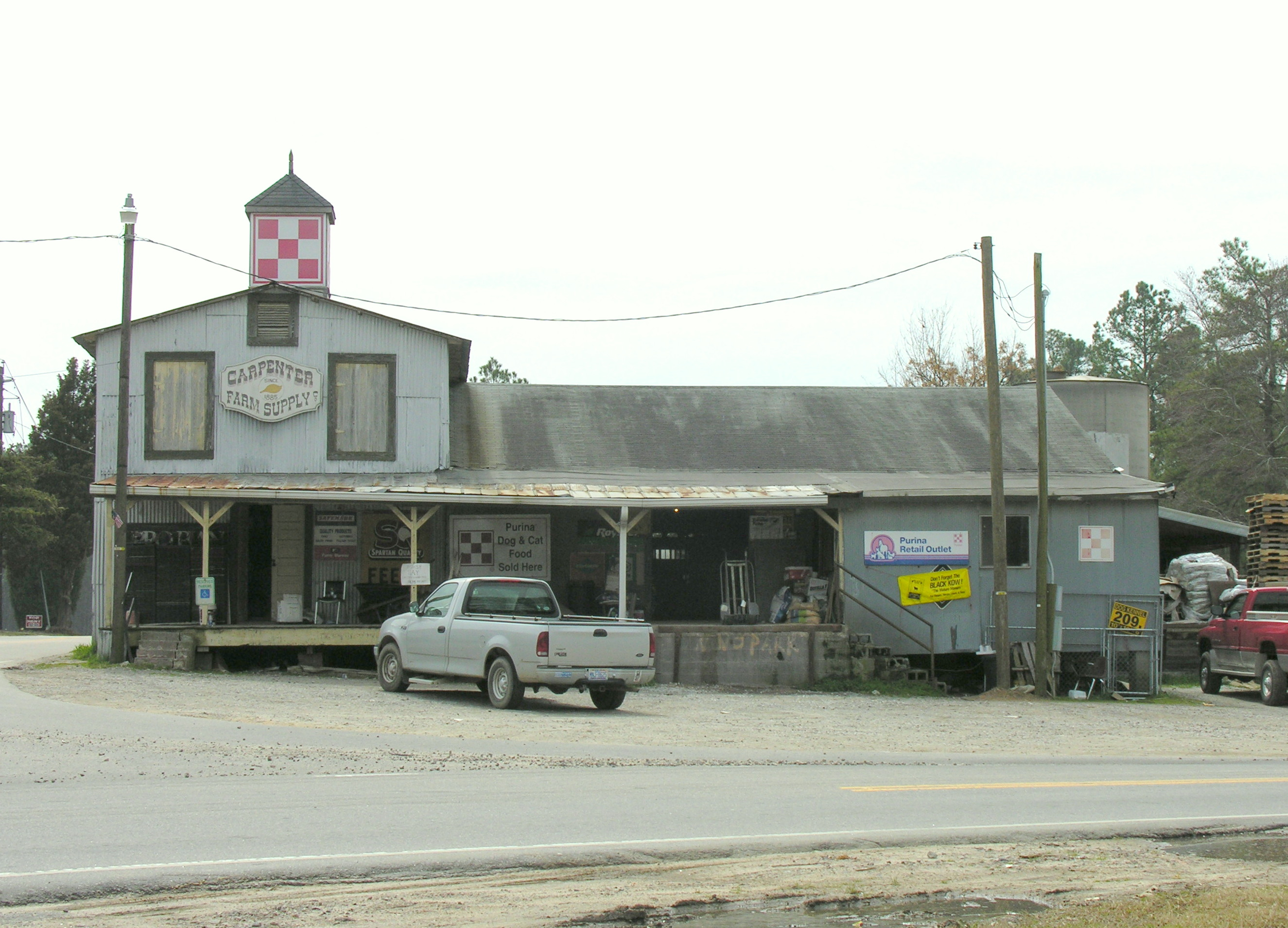 Carpenter Historic District, Along Capenter-Morrisville Road, east of CSX Transportation tracks and west of Davis Drive Cary